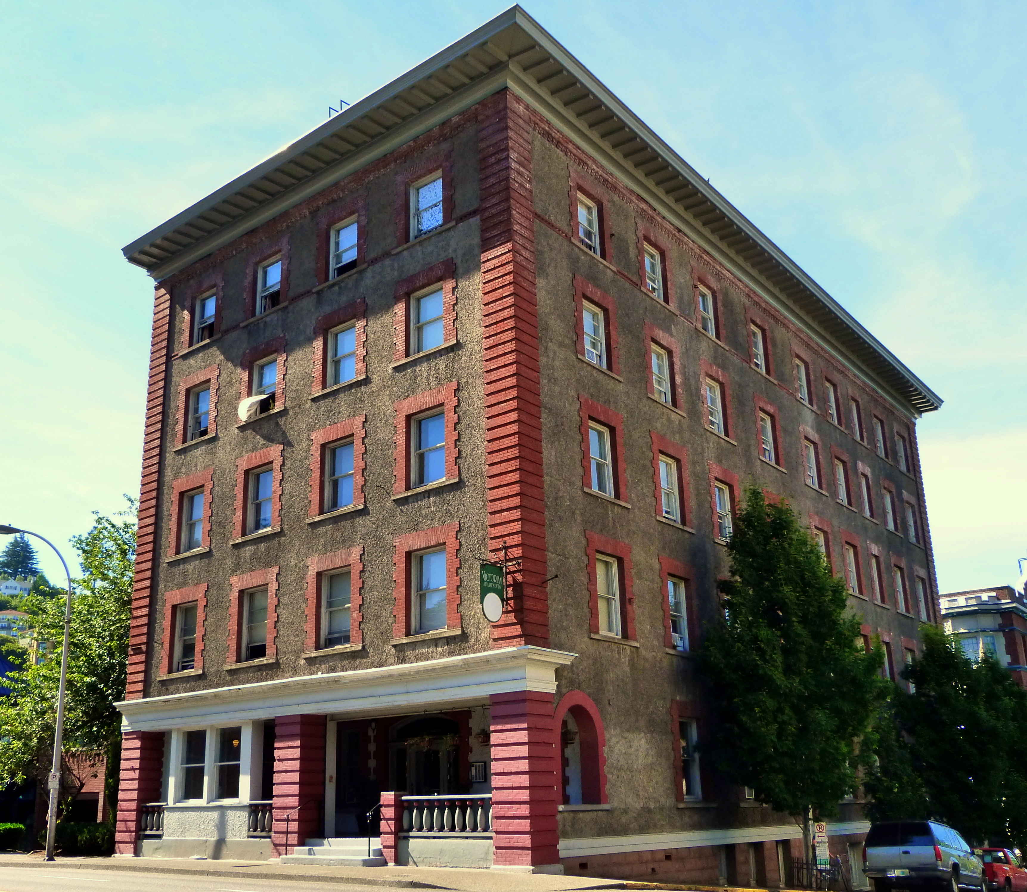 The historic Hill Hotel (built 1904), located at 2255–2261 West Burnside Street in Portland, Oregon, United States, is listed on the US National Register of Historic Places. It is additionally listed as a contributing resource in the National Register-listed Alphabet Historic District.